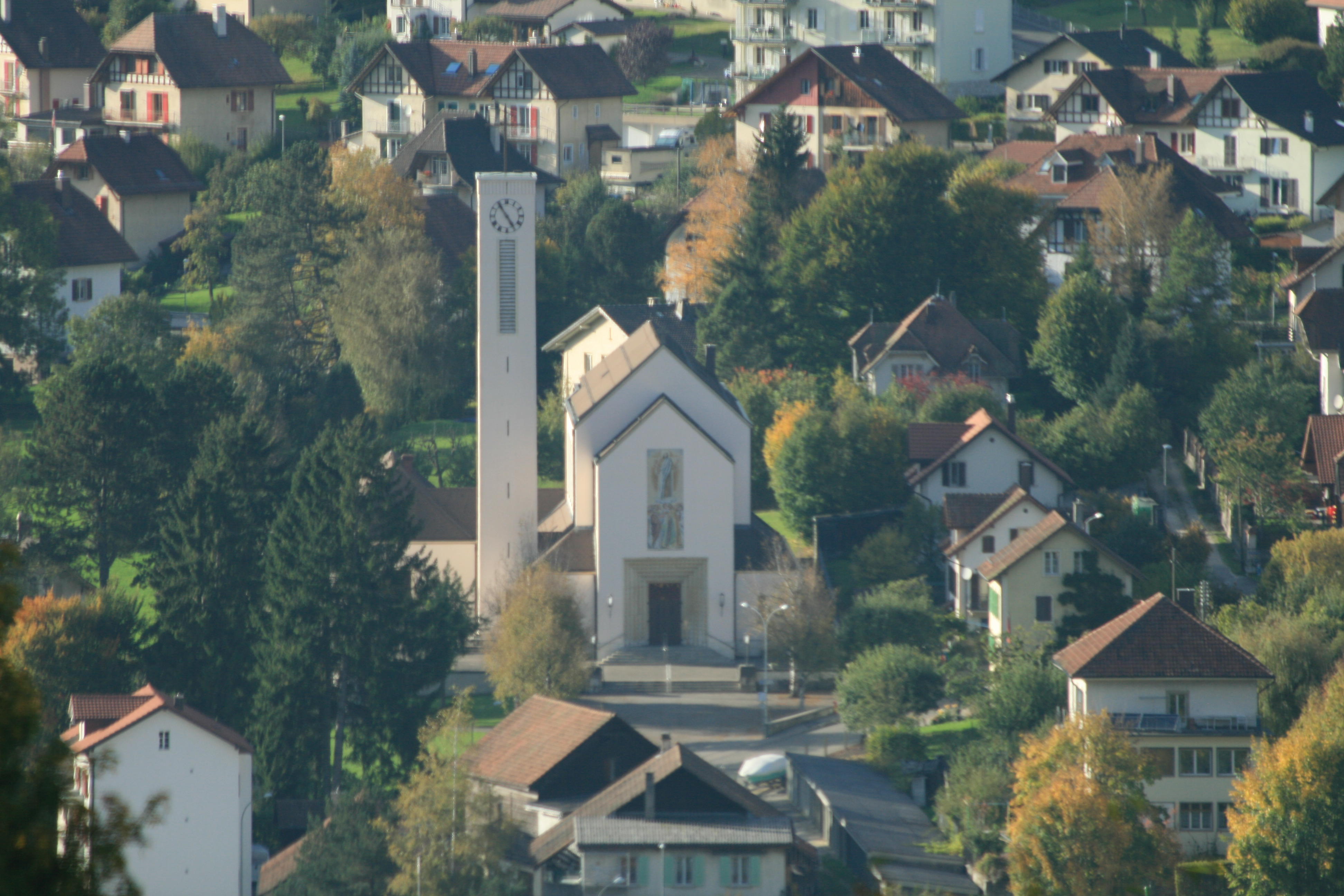 Rom.-cath. church "Christ-Roi", Tavannes